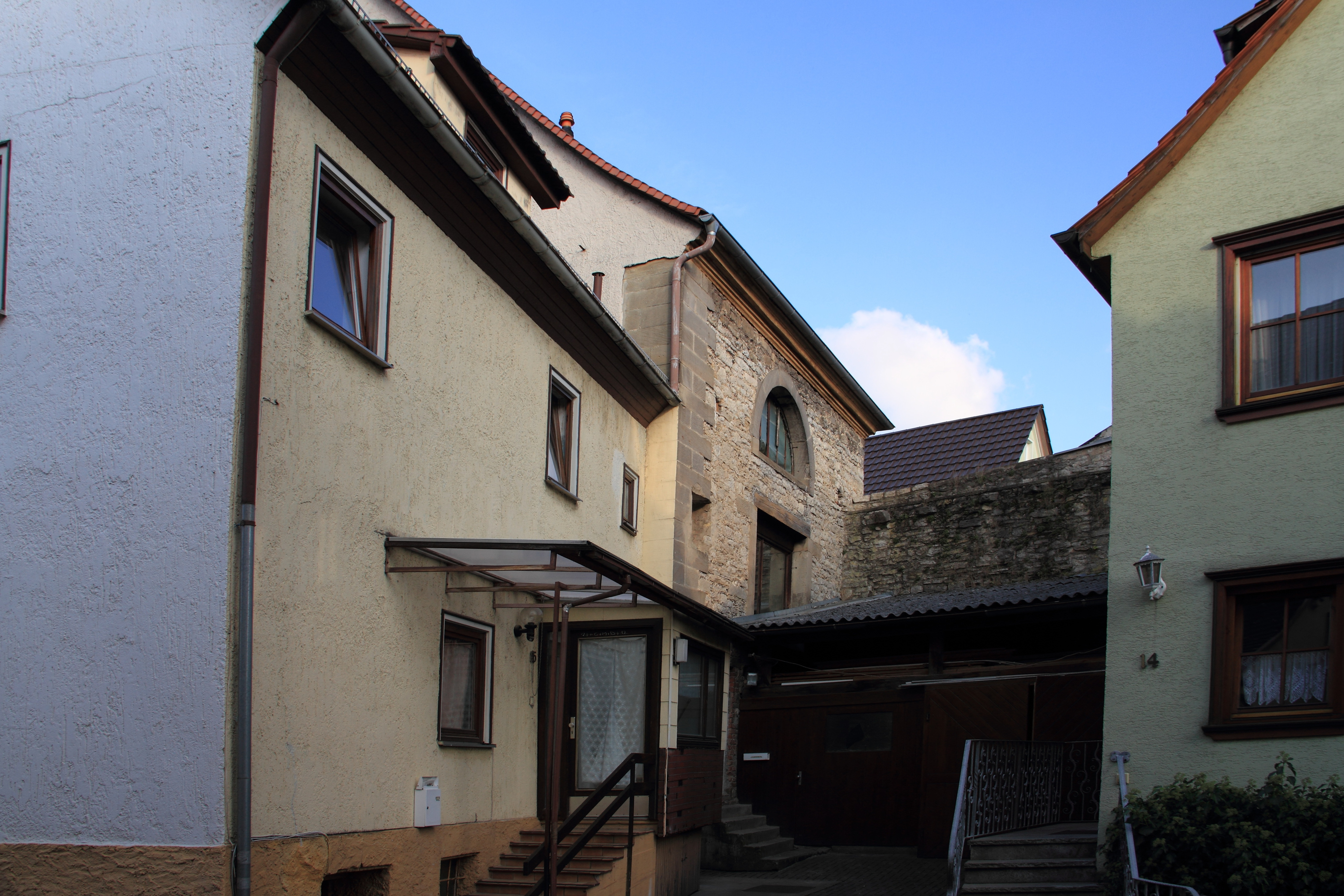 The house at Wilhelmstraße 16 was a synagogue until 1928. Since the end of the 1950s it is used as a cabinetmaker´s workshop.